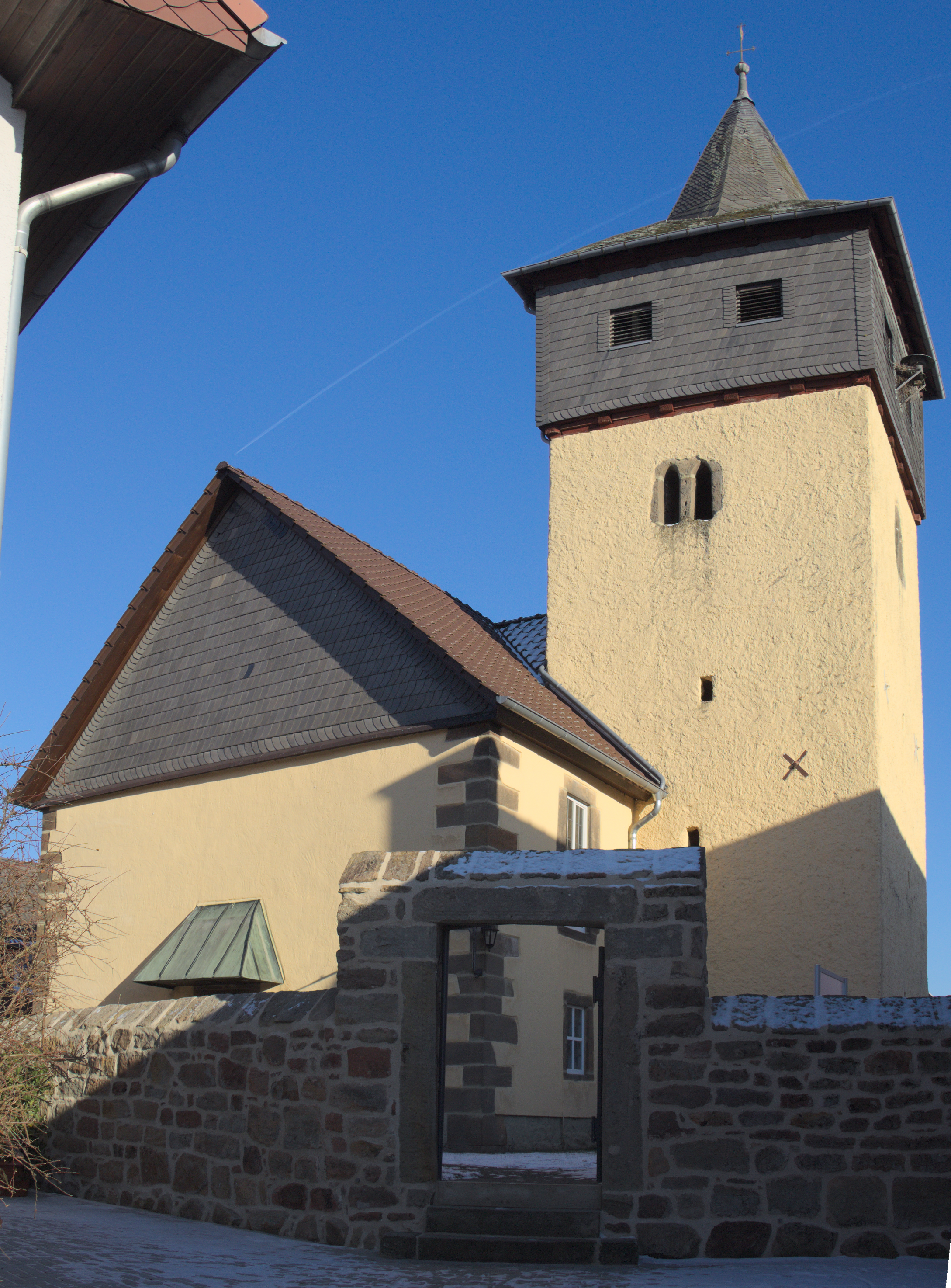 Protestant Church in Niederjossa, Niederaula, Hesse, Germany